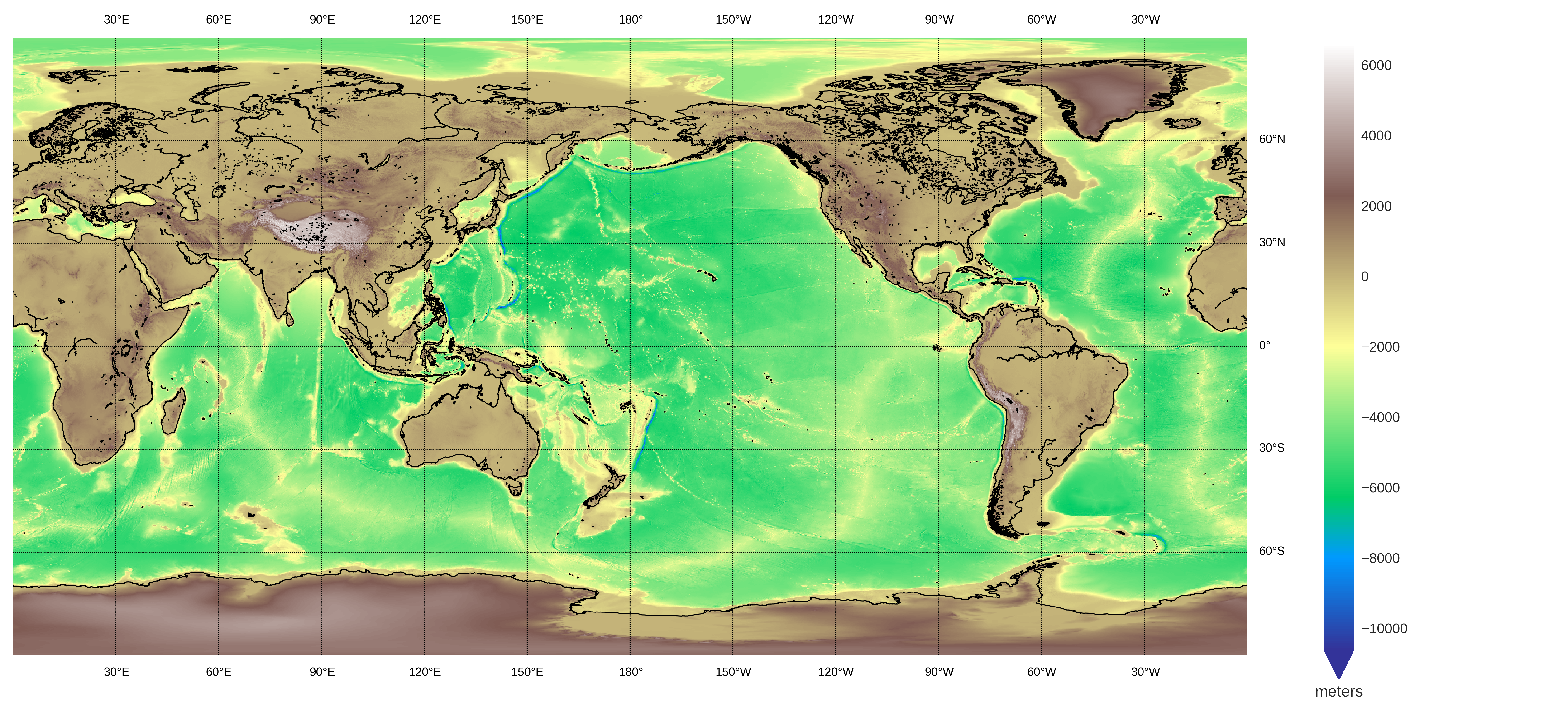 A global SRTM bathymetry map downsampled by 20 points.